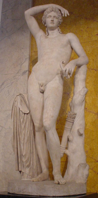 Photo taken by lonpicman